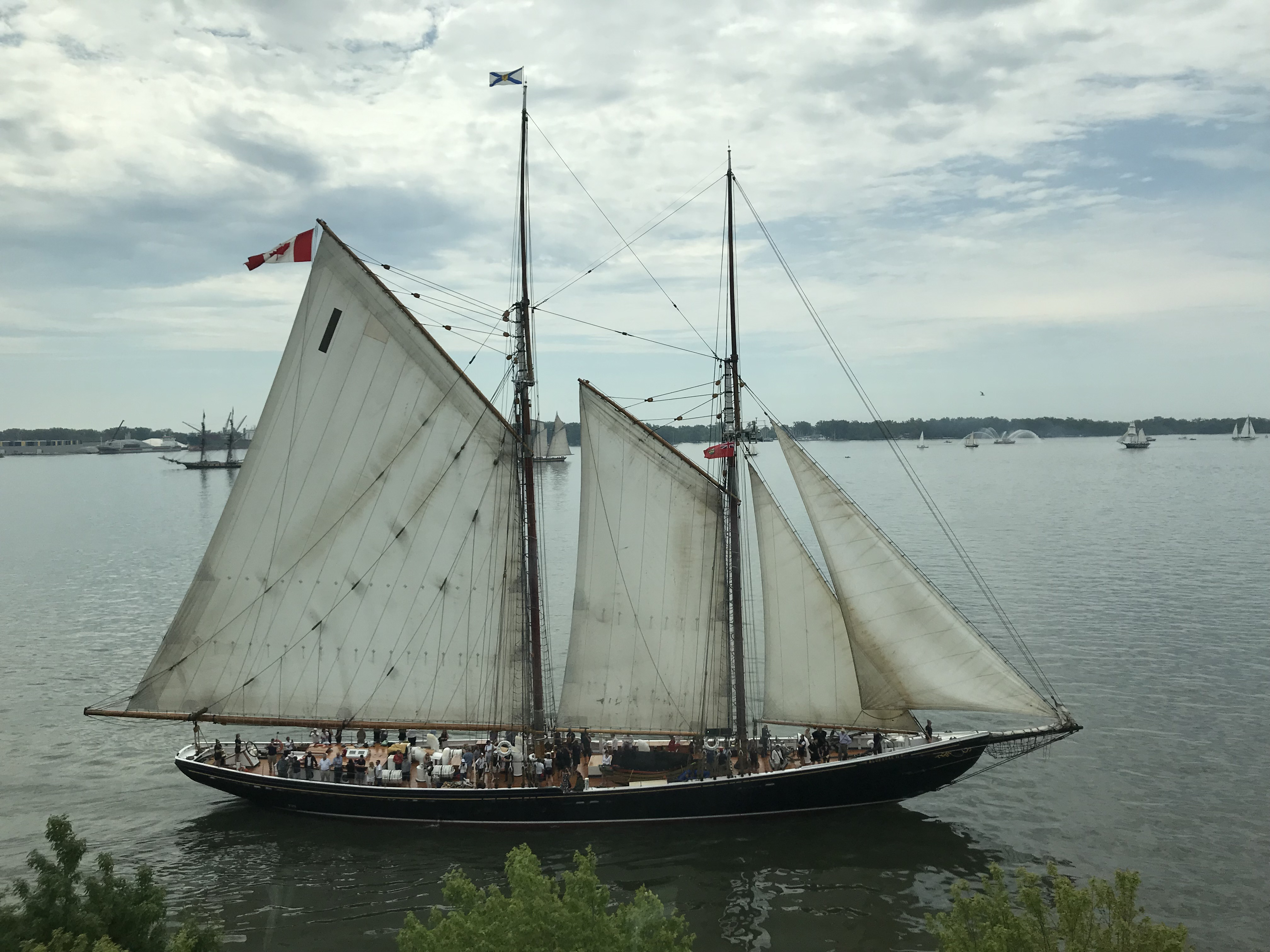 The Bluenose II on the waterfront of Toronto, Ontario, Canada.